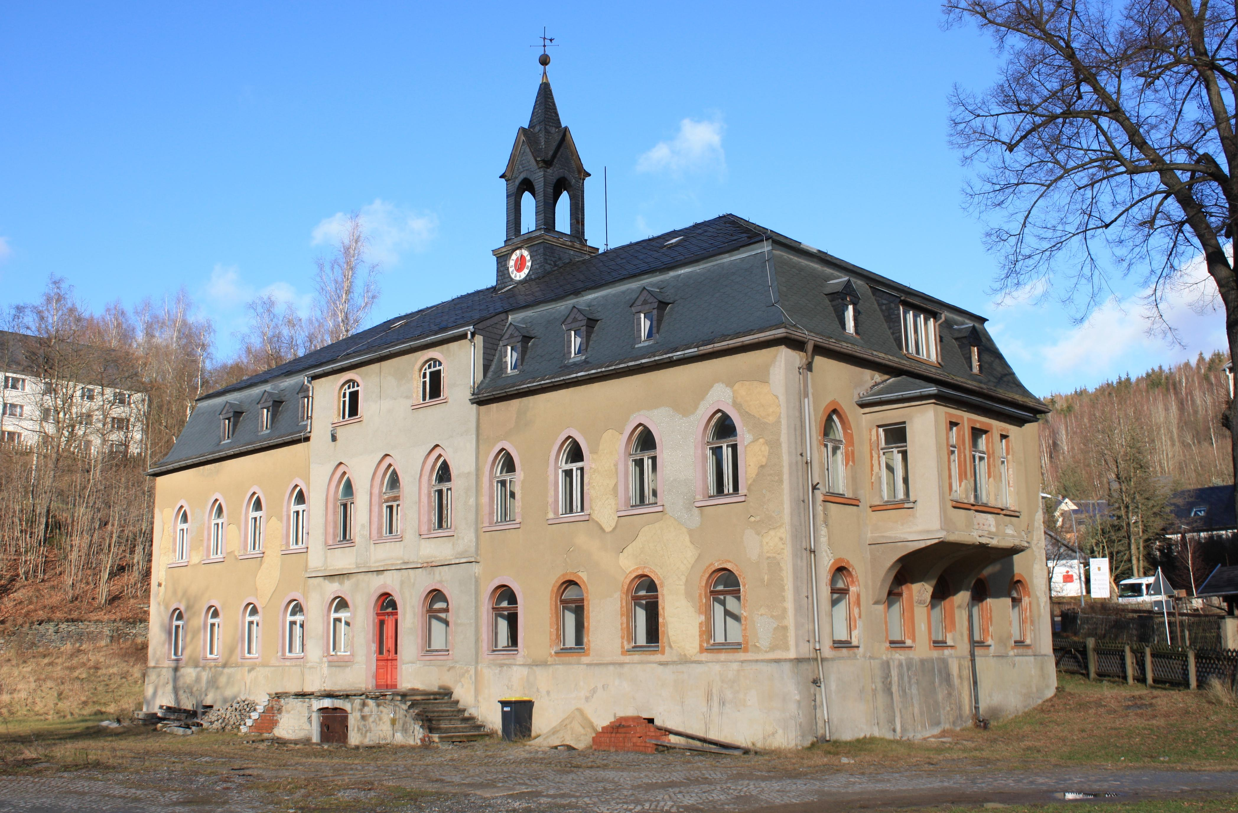 Herrenhaus Antonshütte, Antonsthal, Breitenbrunn, Saxony, Germany